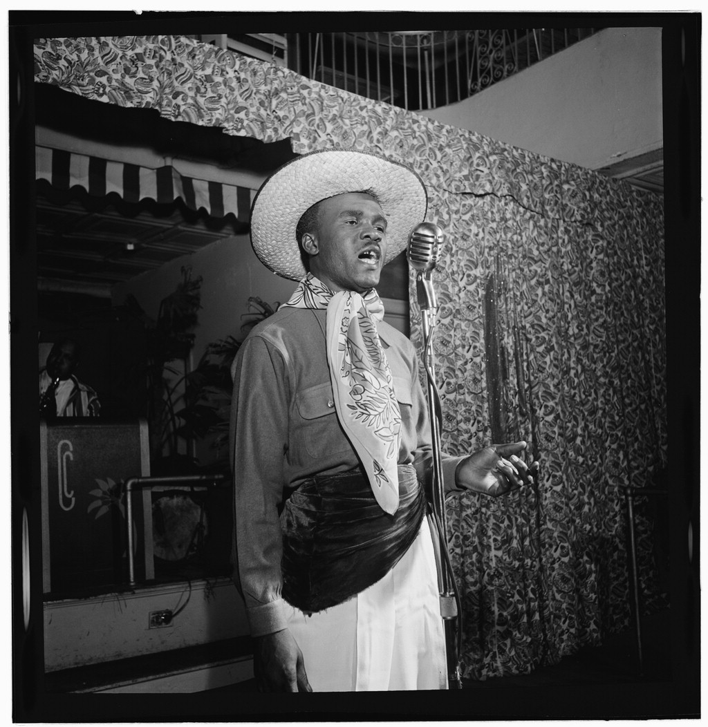 Lord InvaderGottlieb, William P., 1917-, photographer. [Portrait of Calypso, between 1938 and 1948] 1 negative : b&w ; 2 1/4 x 2 1/4 in. Notes: Gottlieb Collection Assignment No. 355 Purchase William P. Gottlieb Forms part of: William P. Gottlieb Collection (Library of Congress). Subjects: Calypso musician Calypso musicians--1930-1950. Format: Portrait photographs--1930-1950. Film negatives--1930-1950. Rights Info: Mr. Gottlieb has dedicated these works to the public domain, but rights of privacy and publicity may apply. Repository: (negative) Library of Congress, Prints & Photographs Division, Washington D.C. 20540 USA, Part Of: William P. Gottlieb Collection (DLC) 99-401005 General information about the Gottlieb Collection is available at Persistent URL: Call Number: LC-GLB23- 1027